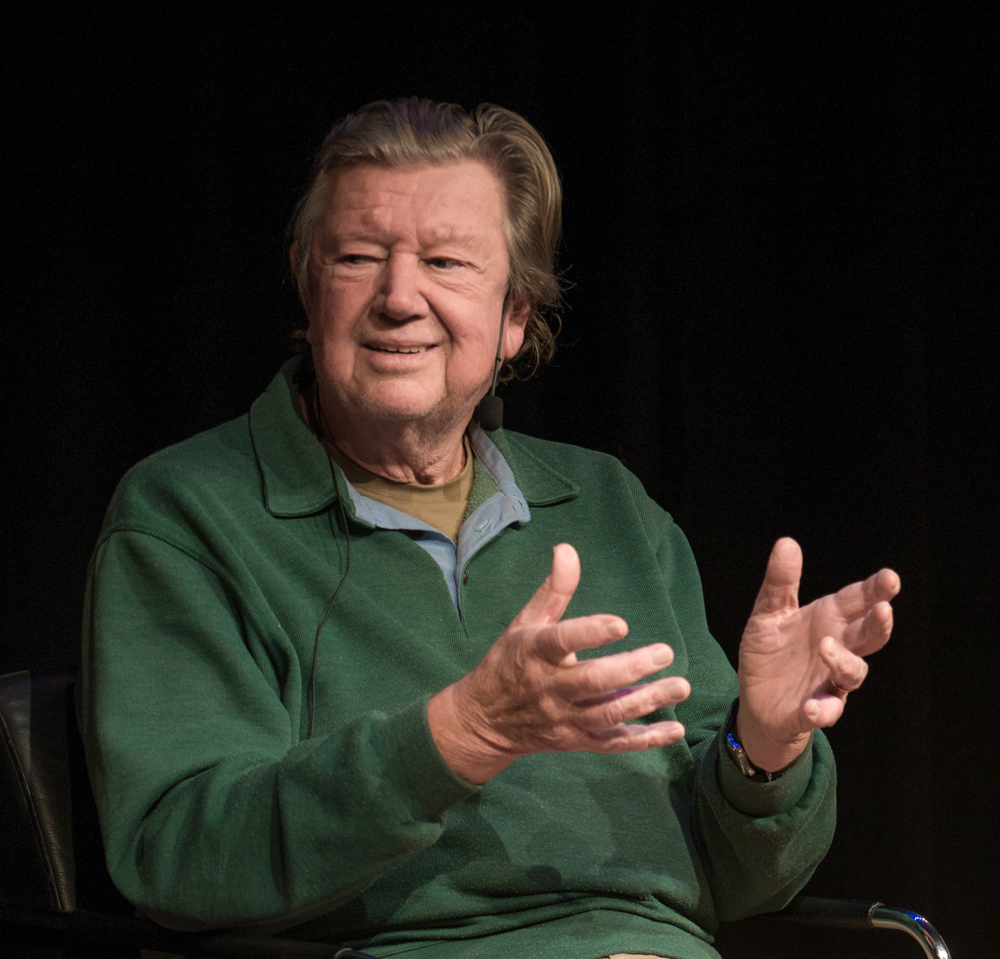 Iwar Wiklander during a conversation with Anna Takanen and Birgitta Ulfsson in "Anna's corner" at Kulturhuset Stadsteatern in Stockholm on October 18, 2016.